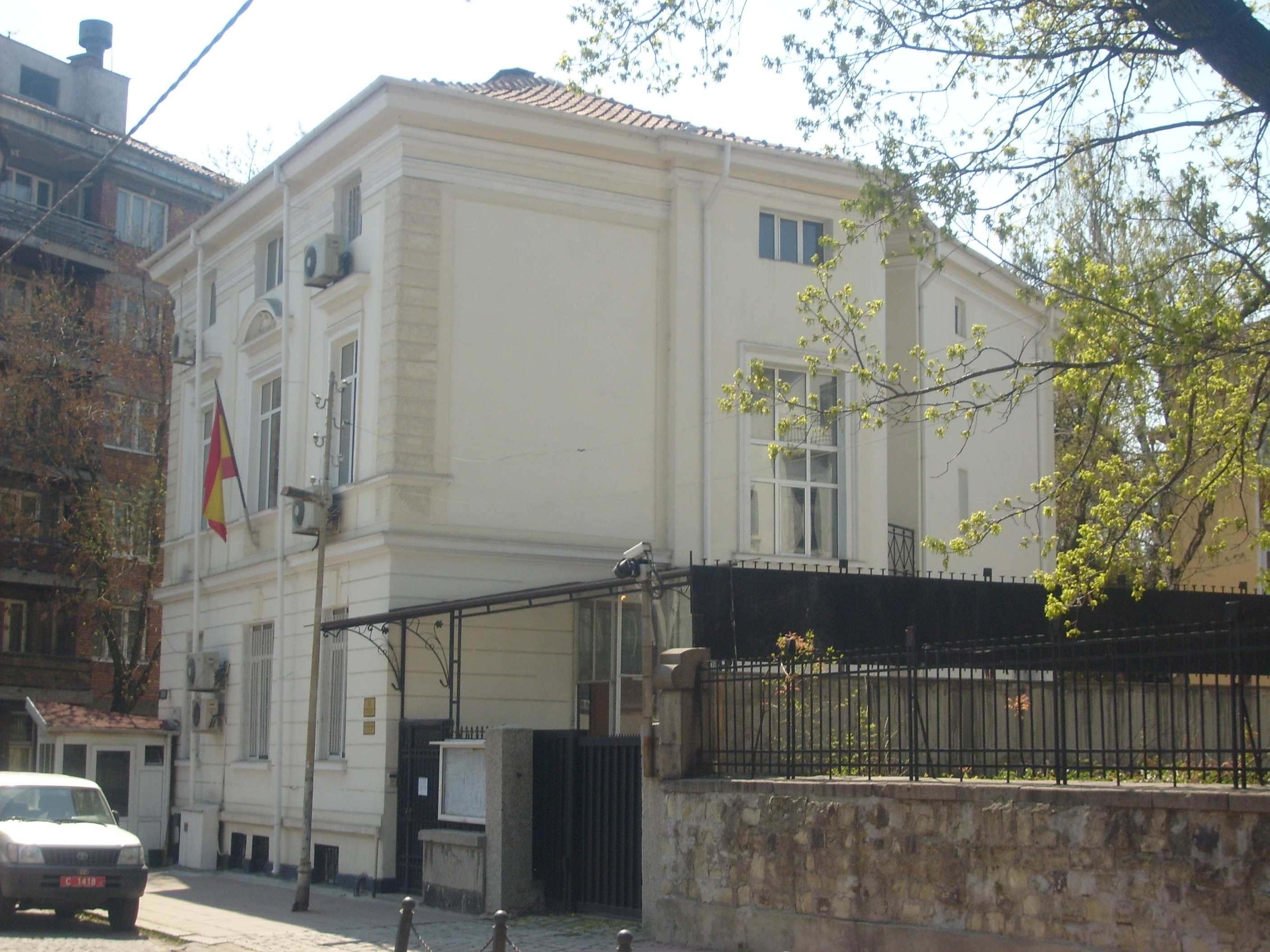 Embassy of Spain in Sofia, Bulgaria